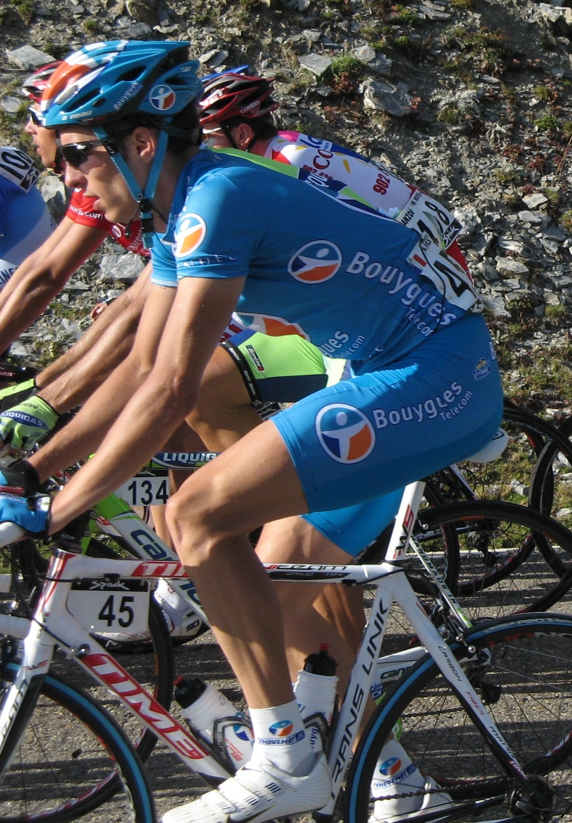 Anthony Geslin, 2008 Vuelta a España, 8th stage, Port de la Bonaigua, Spain.